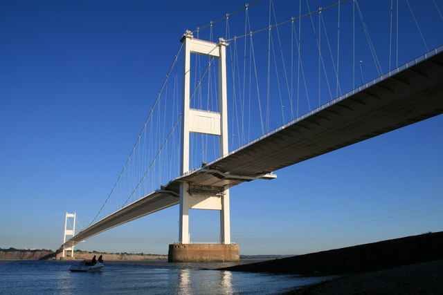 The Severn Bridge spans the River Severn between South Gloucestershire, England, and Monmouthshire in South Wales